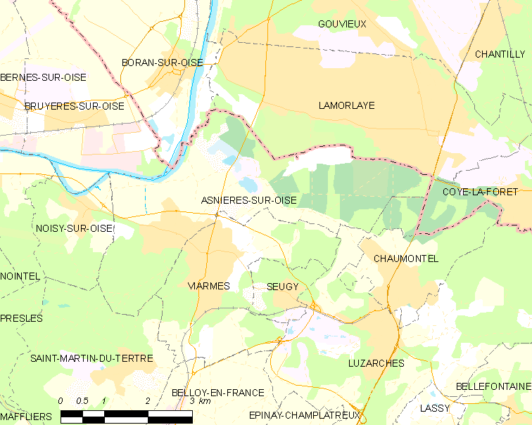 Map of French municipality Asnières-sur-Oise